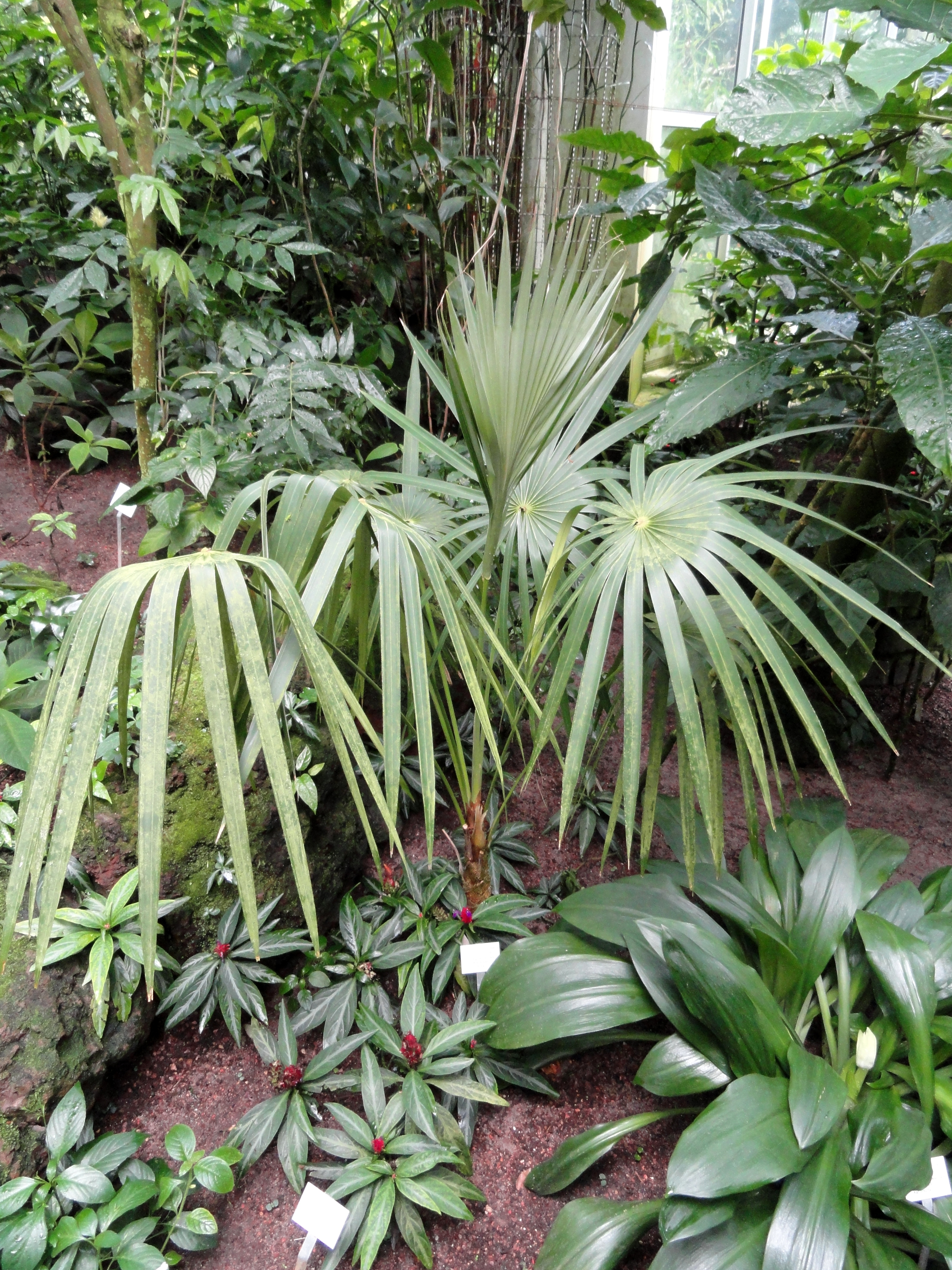 Botanical specimen in the Palmengarten, Frankfurt am Main, Germany.